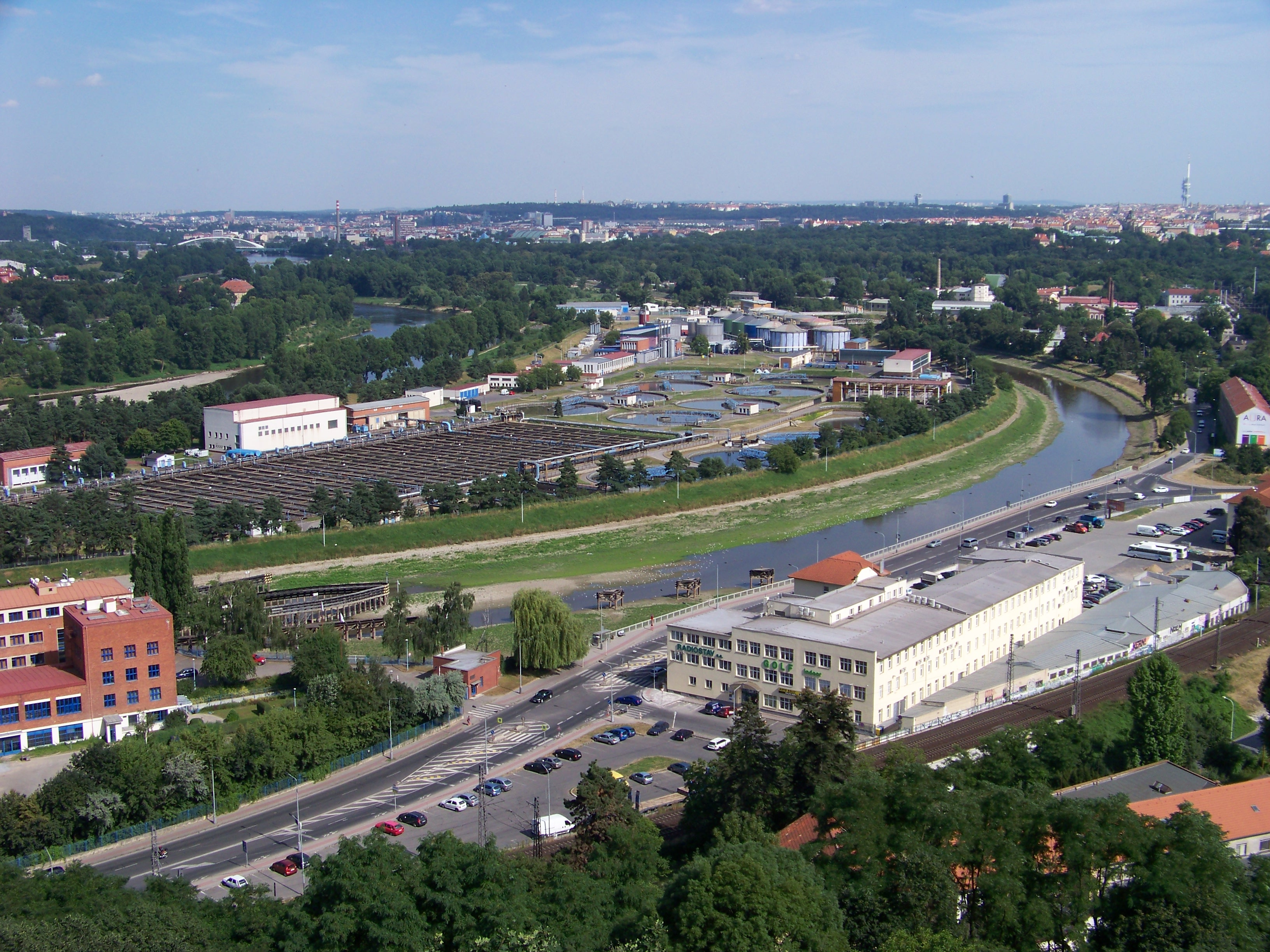 Prague-Dejvice and Bubeneč, the Czech Republic. Podbabská 81/17 (Pod Paťankou 81/2) and Císařský ostrov.